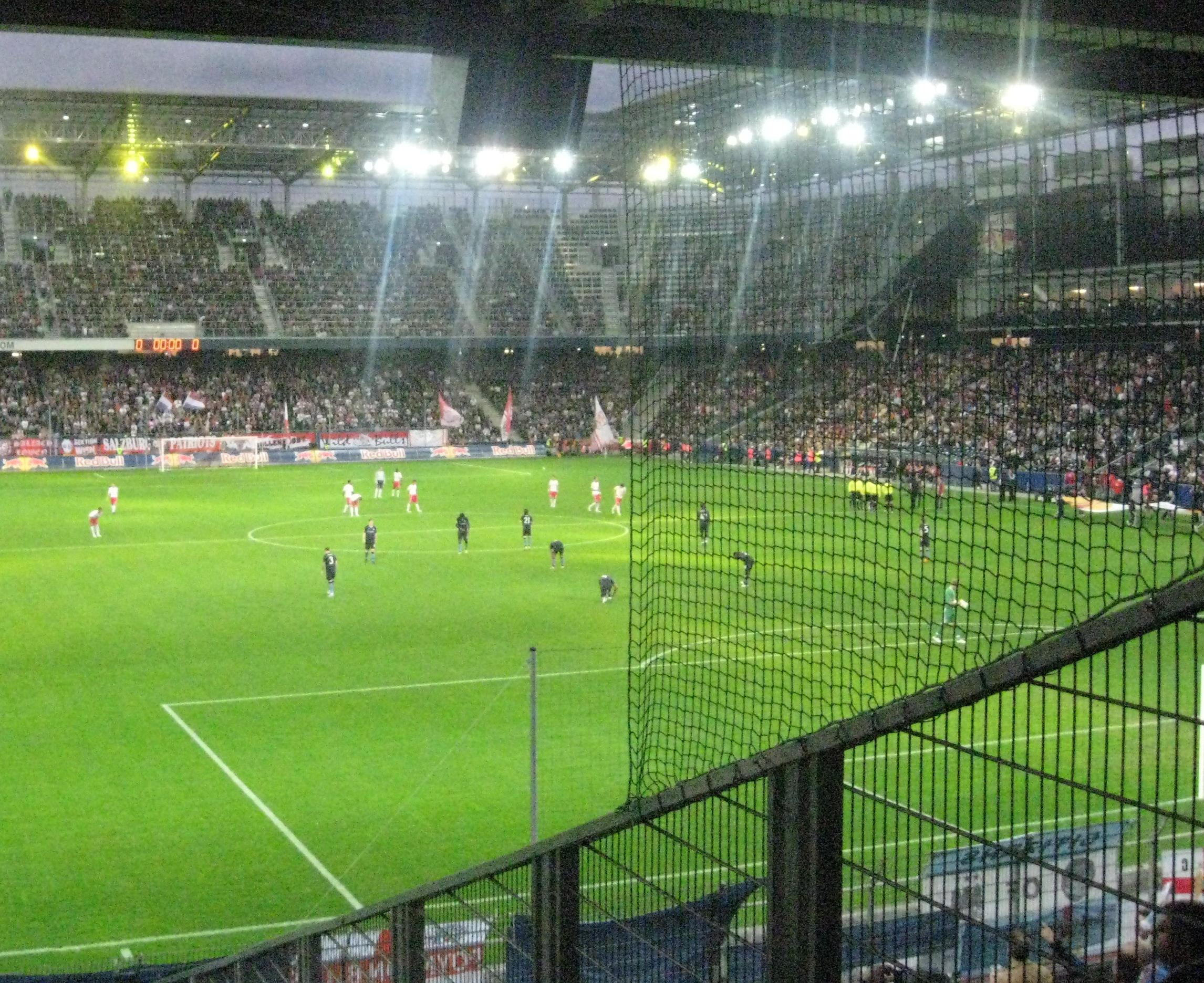 Manchester City (navy) and Red Bull Salzburg (white) kick off a UEFA Europa League match.